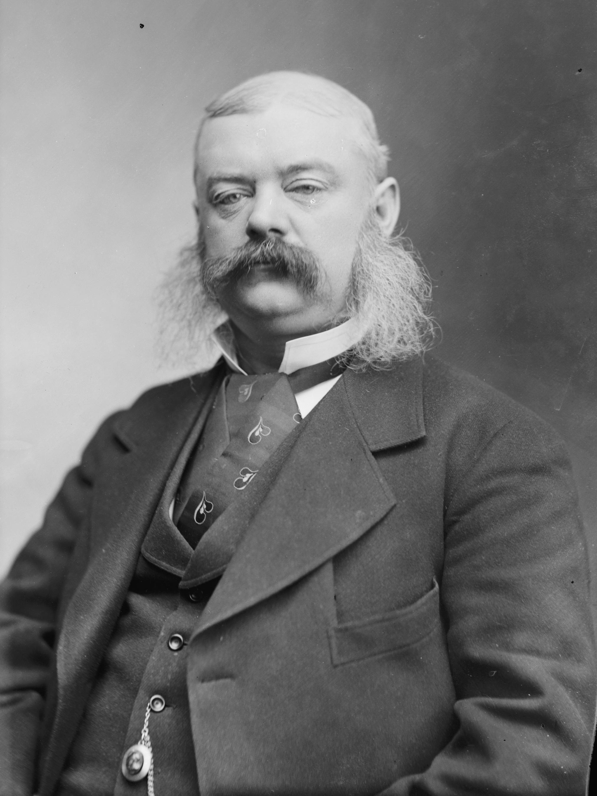 Terence J. Quinn. Library of Congress description: "Quinn, Hon. Terence John of N.Y.".